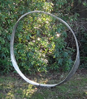 Currently on show at the Yorkshire Sculpure Park, West Bretton, West Yorkshire, England. Material - aluminium.